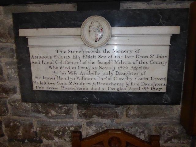 Ambrose St John (1760-1822) was a Member of Parliament for Callington in Cornwall and was Lt-Col Commandant of the Supply Militia of Worcestershire. Monument in Worcester Cathedral. He was the eldest son of Very Rev. St Andrew St John (1732-1795), Dean of Worcester Cathedral, the second son of John St John, 11th Baron St John of Bletso.